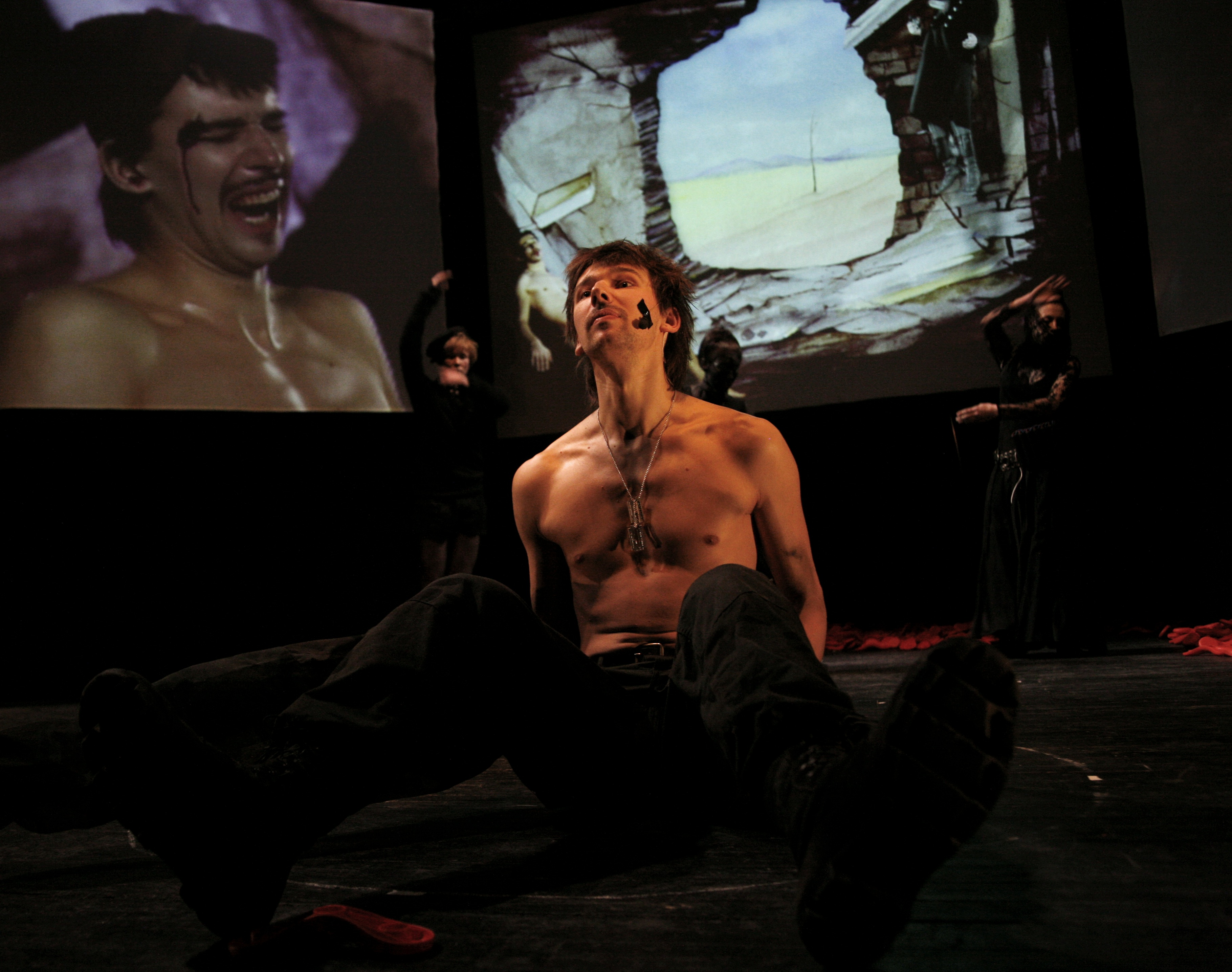 Von Krahl Theatre: The Magic Flute